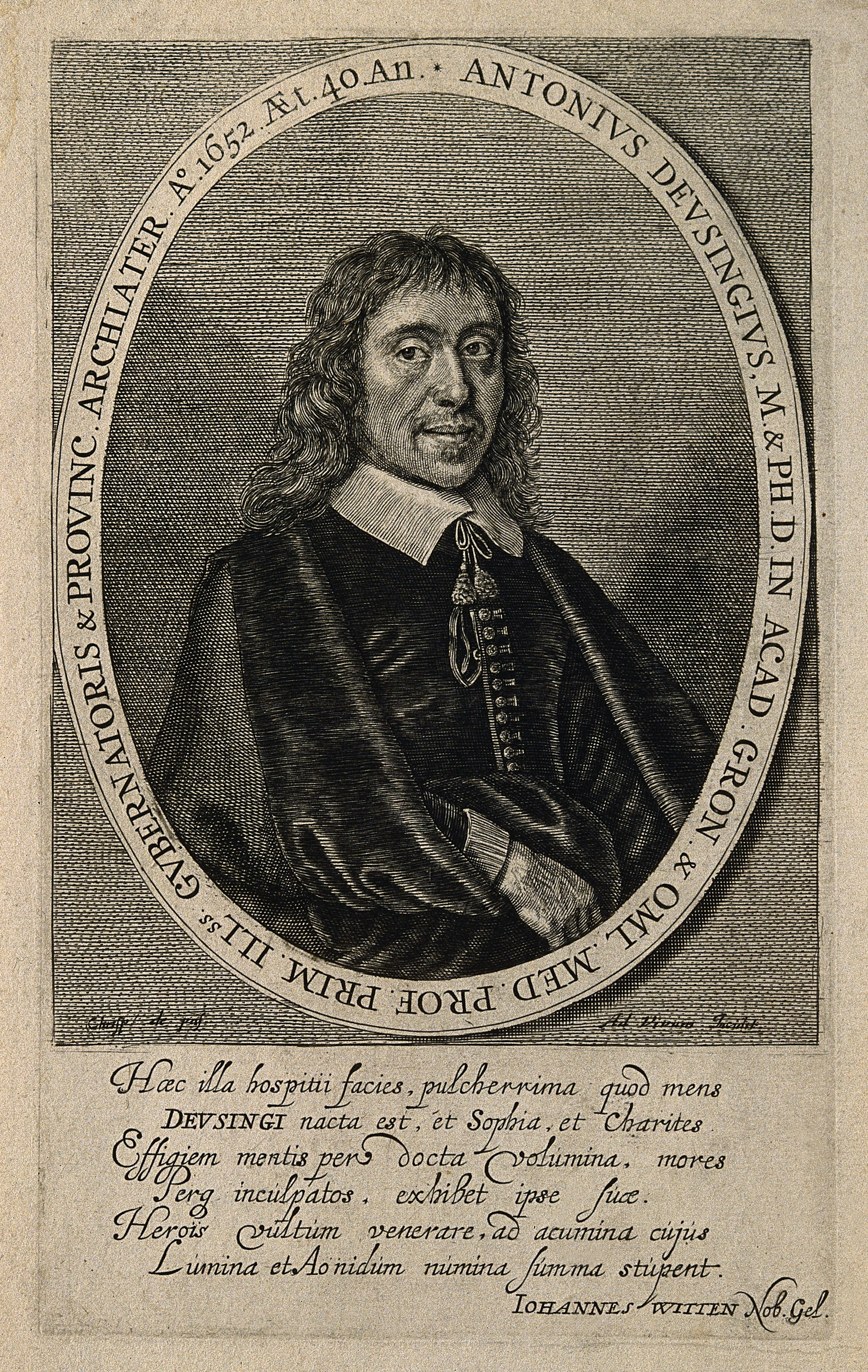 Antonius Deusing. Line engraving by C. de Passe, junior, 1654, after himself. Iconographic Collections Keywords: portrait prints; Antonius Deusingius; engravings